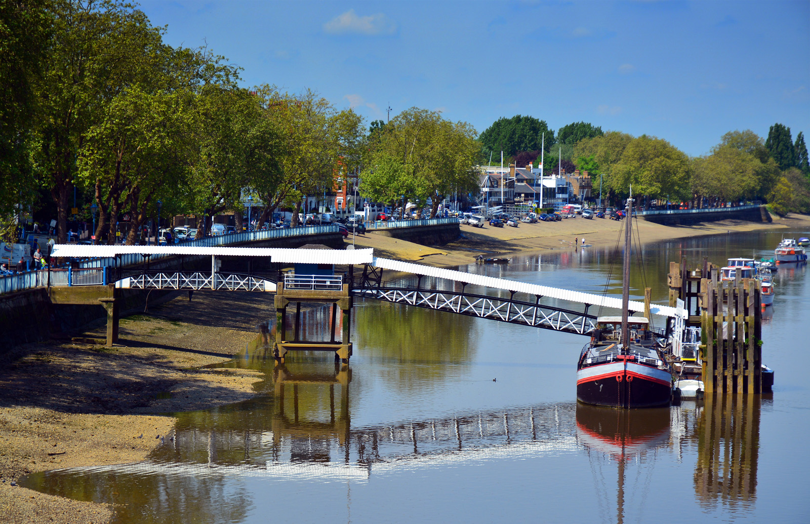 London Borough of Wandsworth. ( CC BY-SA - anyone can freely use this size file anywhere, provided accompanied by the credit: Photo by George Rex.)